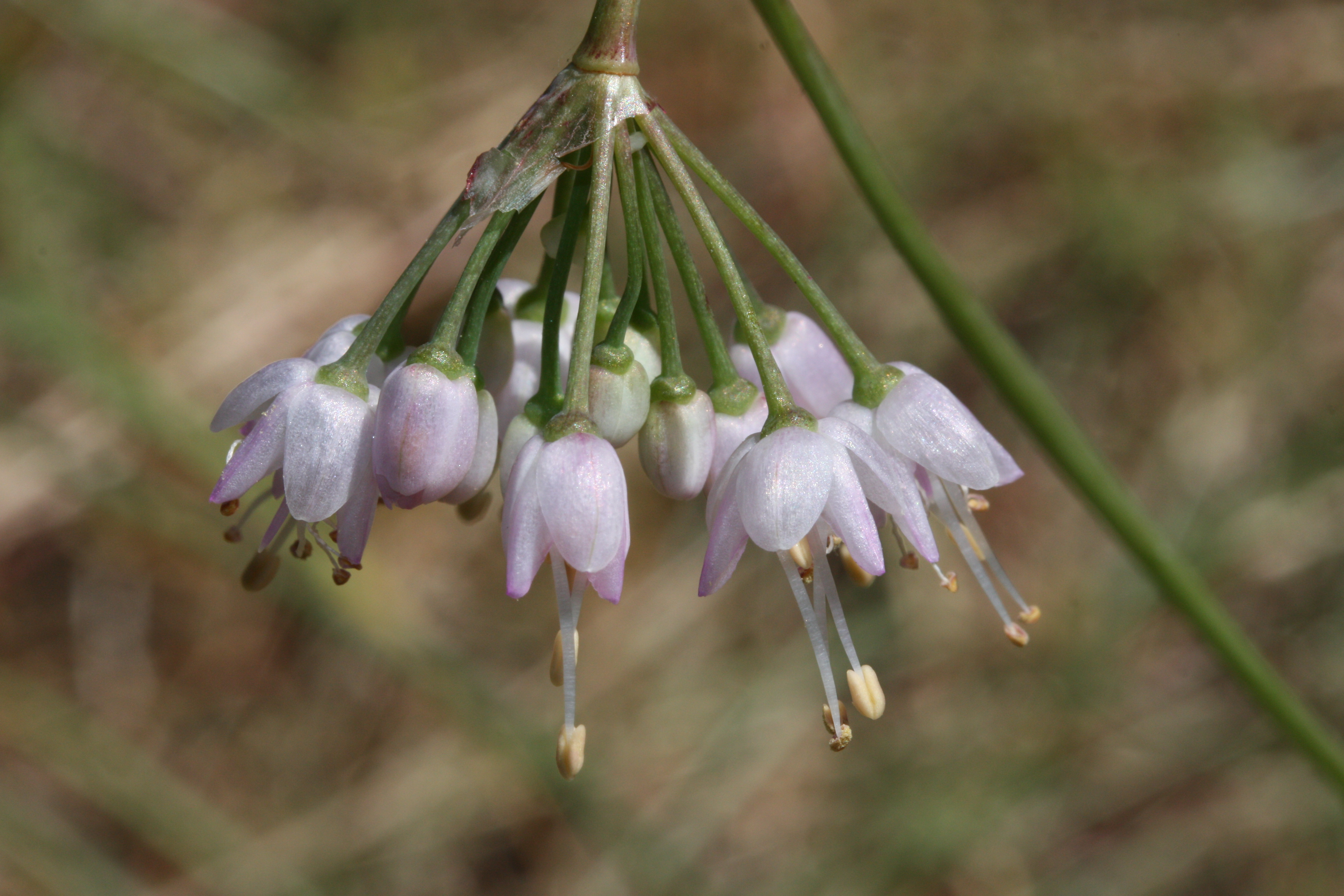 Nodding Onion